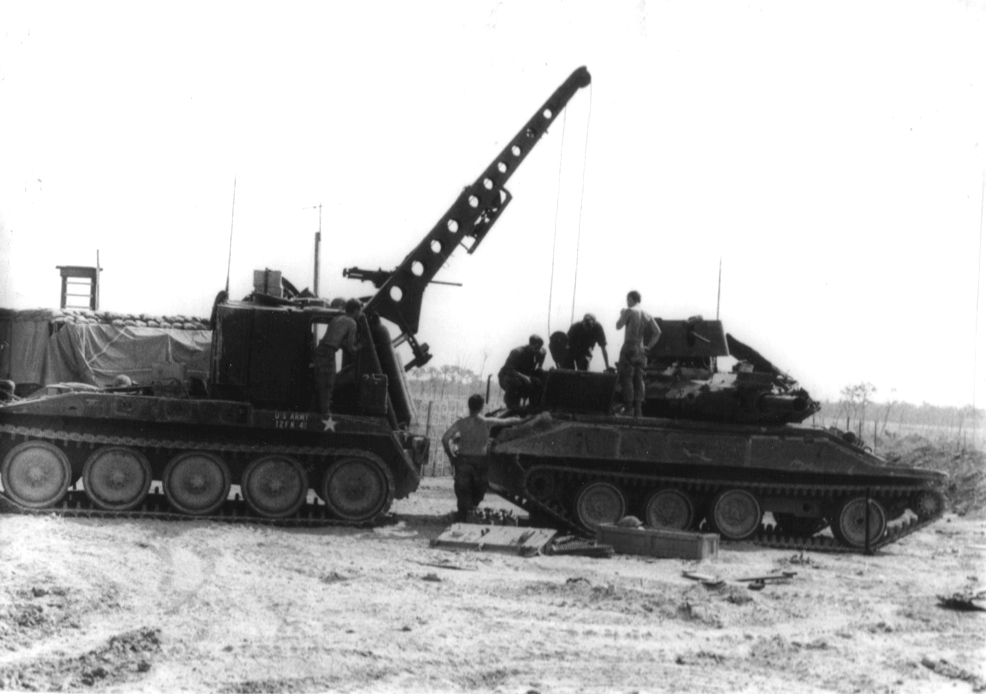 M578 LIGHT RECOVERY VEHICLE WORKS ON SHERIDAN.